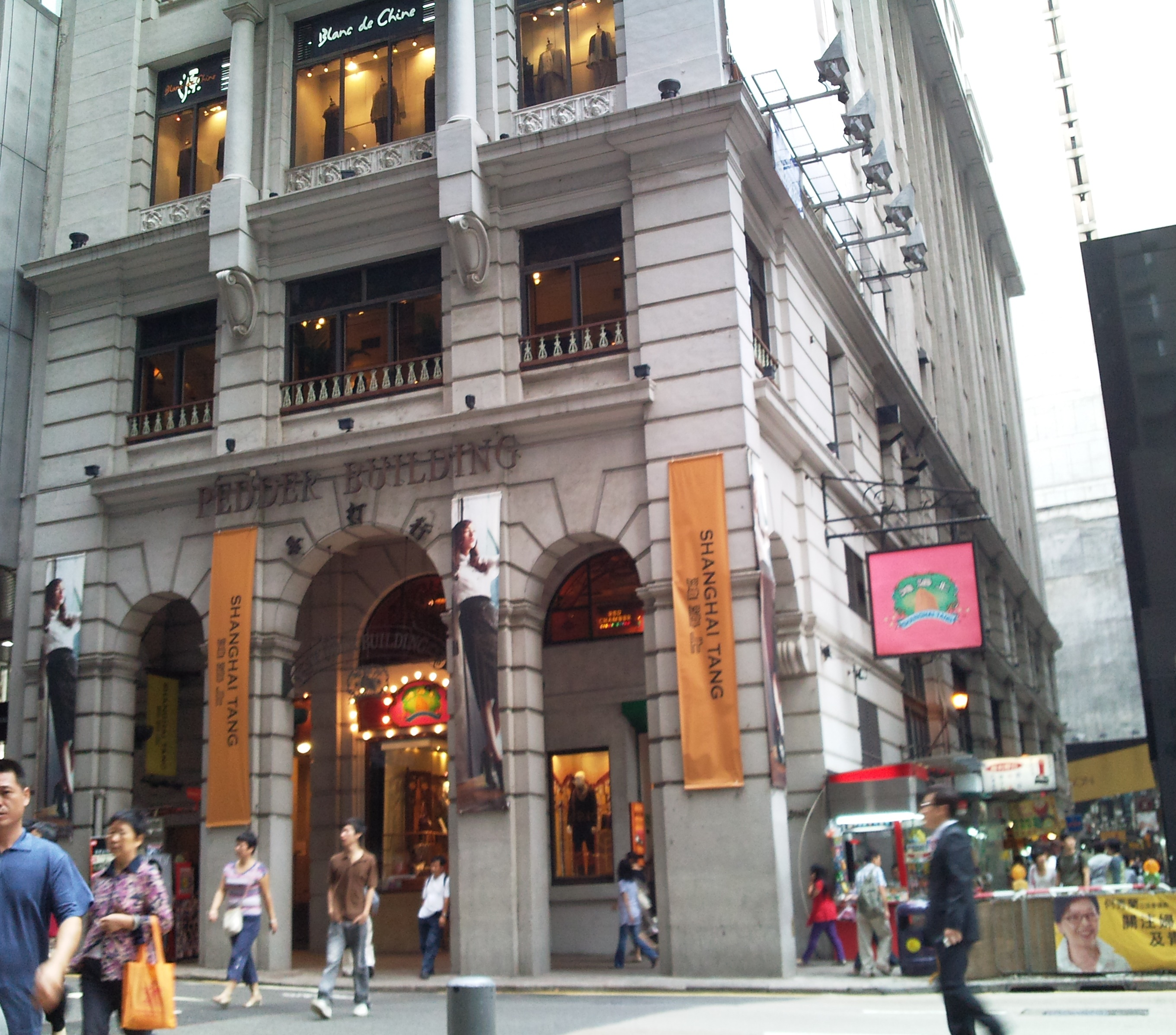 Lau, Xanthe, Main Entrance of the Pedder Building, Taken in Central Hong Kong (2009), Date 14th October 2009